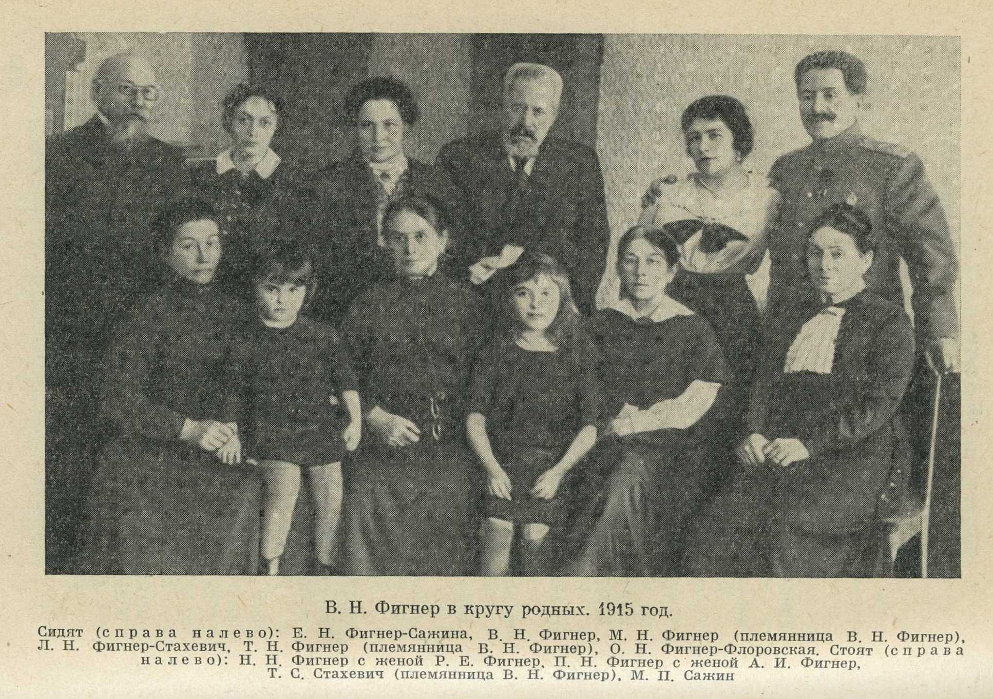 Figner family 1915 Sitting (from right to left): Evgeniya Figner-Sazhina, Vera Figner, M. N. Figner (V. Figner's niece), Lidiya Figner-Stahevich, T. N. Figner (V. Figner's niece), Olga Figner. Standing (from right to left): Nikolay Figner, R. E. Figner (N. Figner's wife), Pyotr Figner, A. I. Figner (P. Figner's wife), T. S. Stahevich (V. Figner's niece), Mikhail Sazhin (E. Figner's husband).